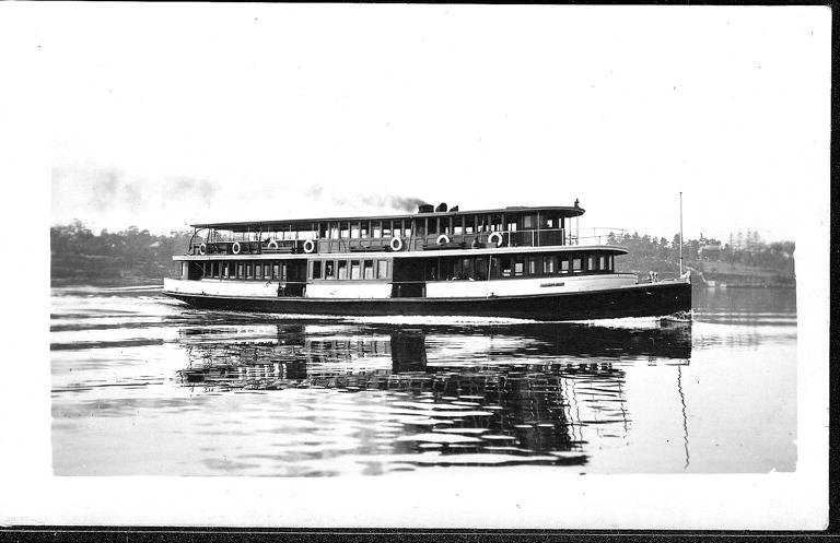 Sydney Ferry BRONZEWING c 1920s. built 1899, scrapped 1933 File 079/079173 DESCRIPTION Running almost empty the ferry is making good time back to the Gladesville Wharf. DATE 1920s. FORMAT Digital image only. Many of the images in this collection are available as hi-res jpegs. Please contact the City of Sydney Archives (archives@ .au) on a case by case basis. RECORDSERIES Sydney Reference Collection CITATION Graeme Andrews 'Working Harbour' Collection: 79173 PROVENANCE City of Sydney Archives NOTES S105211